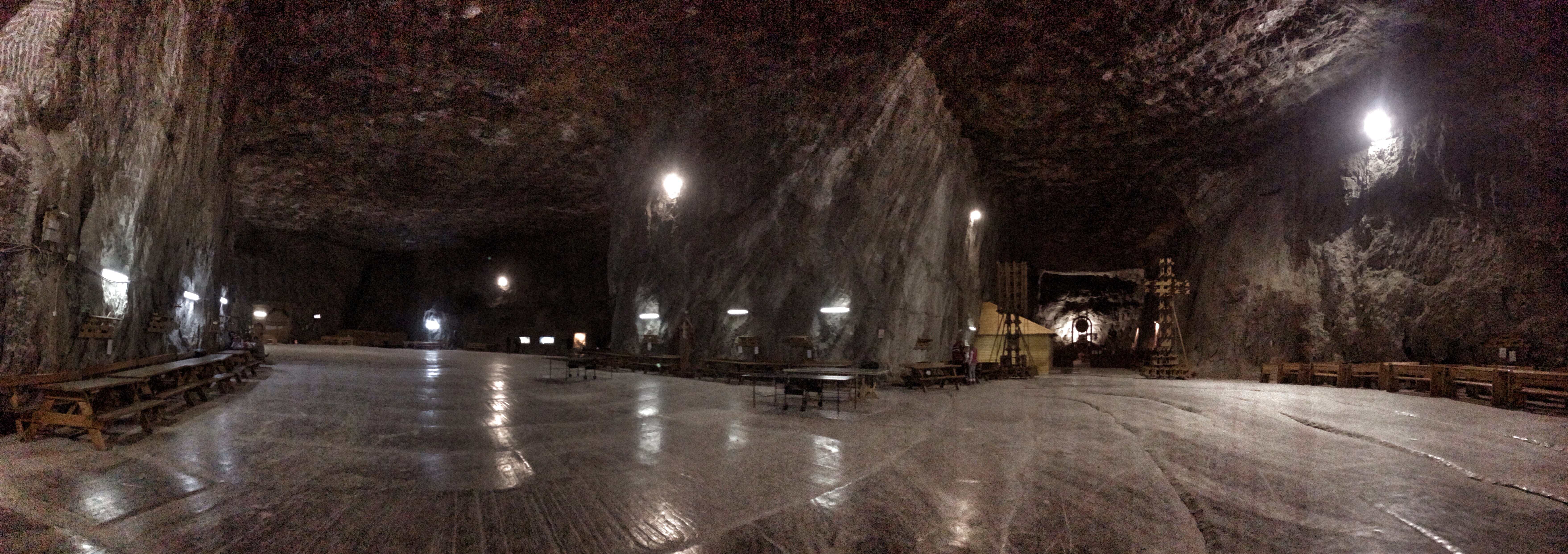 The Praid mine is a large salt mine located in central Romania in Harghita County, close to Praid.